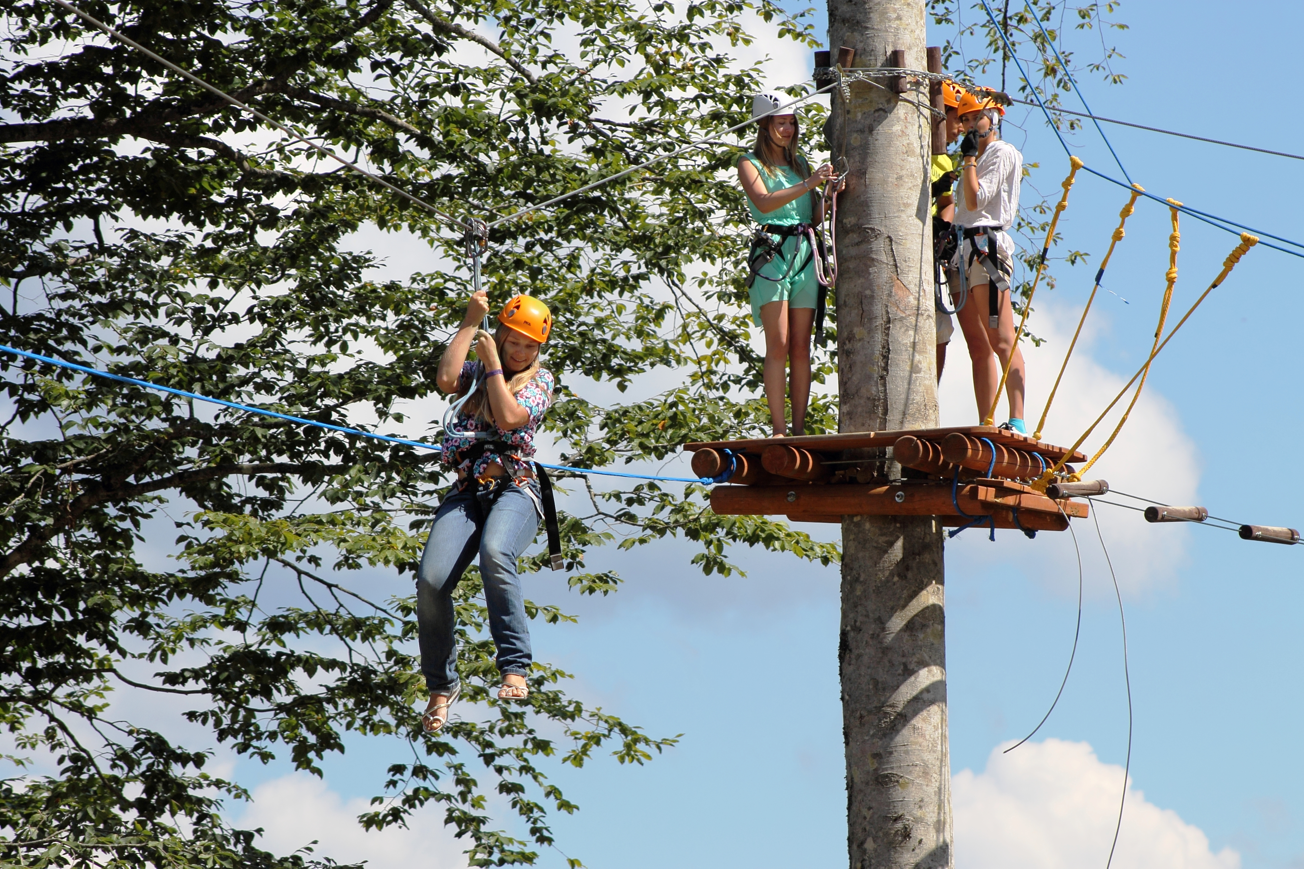 In PandaPark — Adventure park at the alpine resort Rosa Khutor in Krasnaya Polyana, near Sochi.